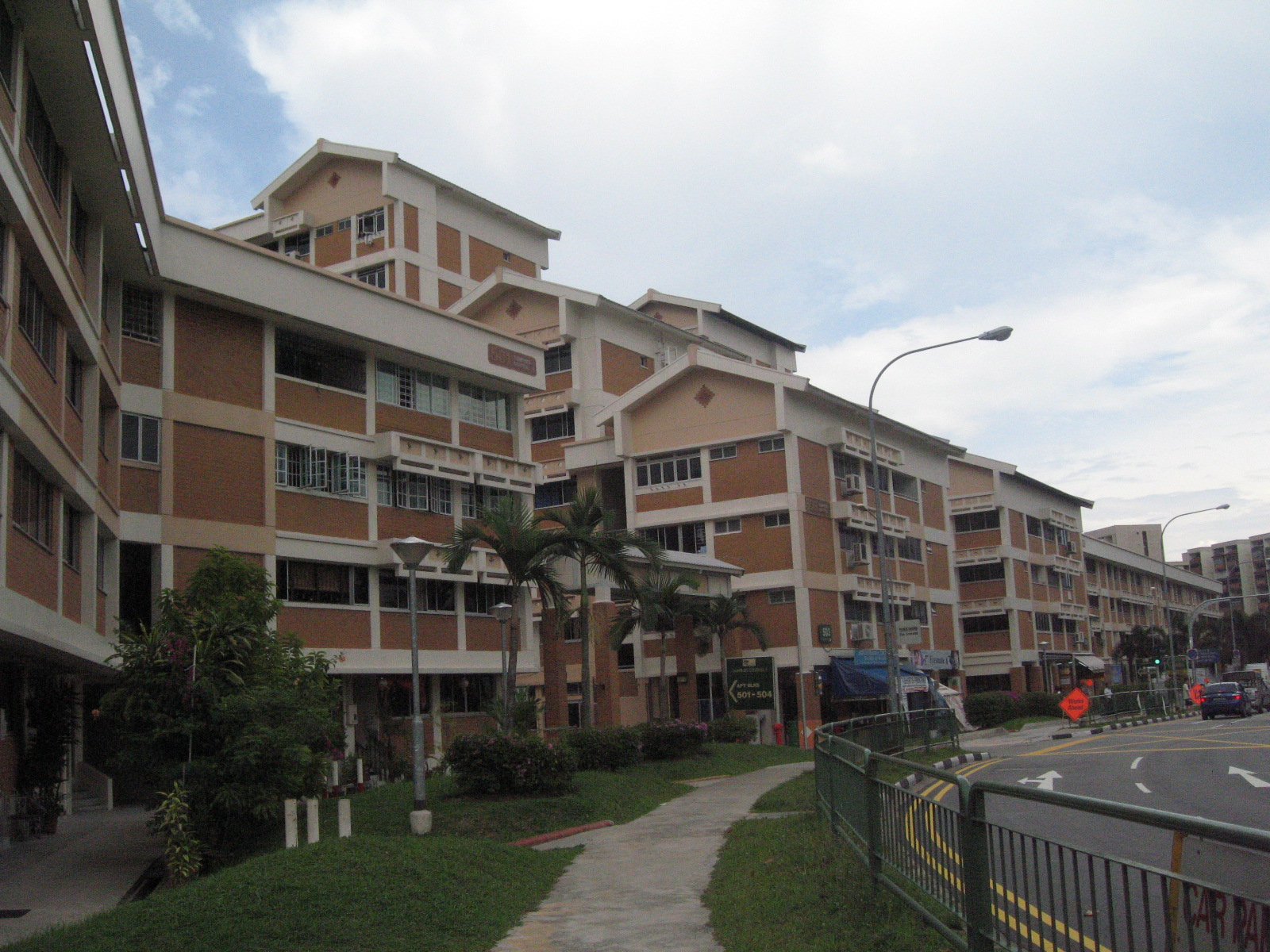 HDB flats at Tampines New Town, Singapore.